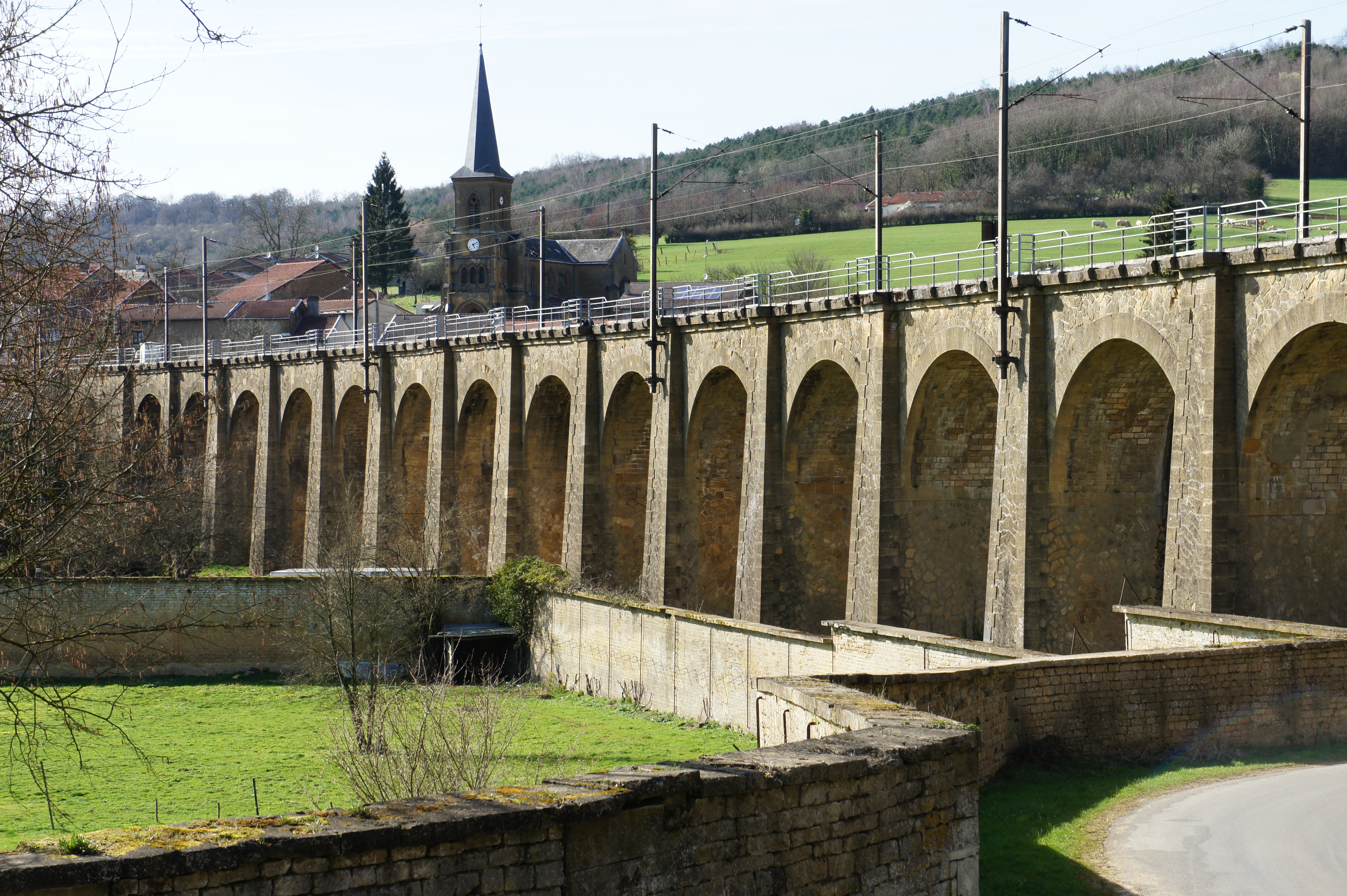 Railway bridge Thonne-les-Près